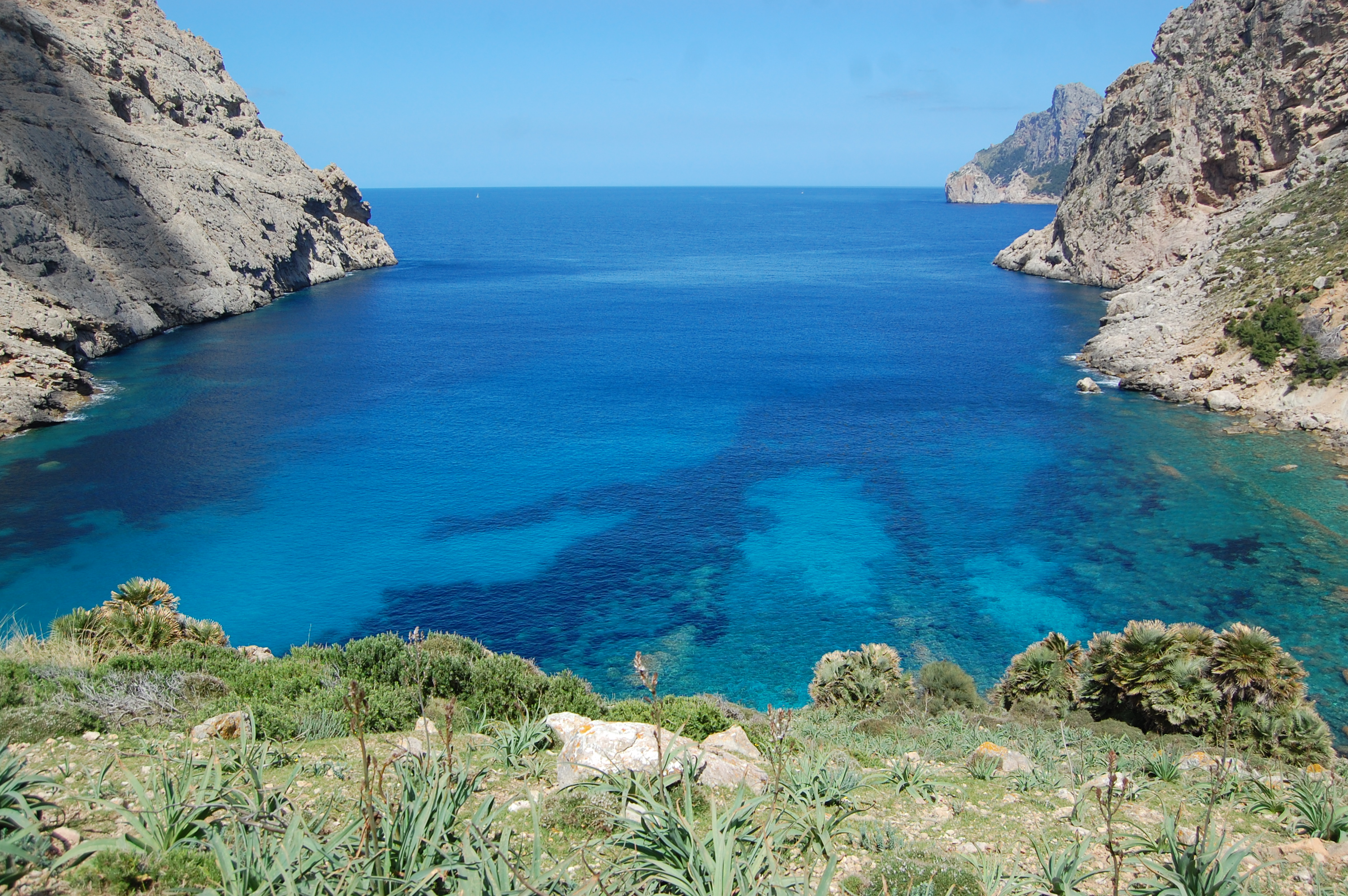 Cala Boquer, at the North-Eastern end of the Boquer Valley, near Port de Pollença, Majorca. Object location39° 55′ 44.66″ N, 3° 05′ 49.73″ E